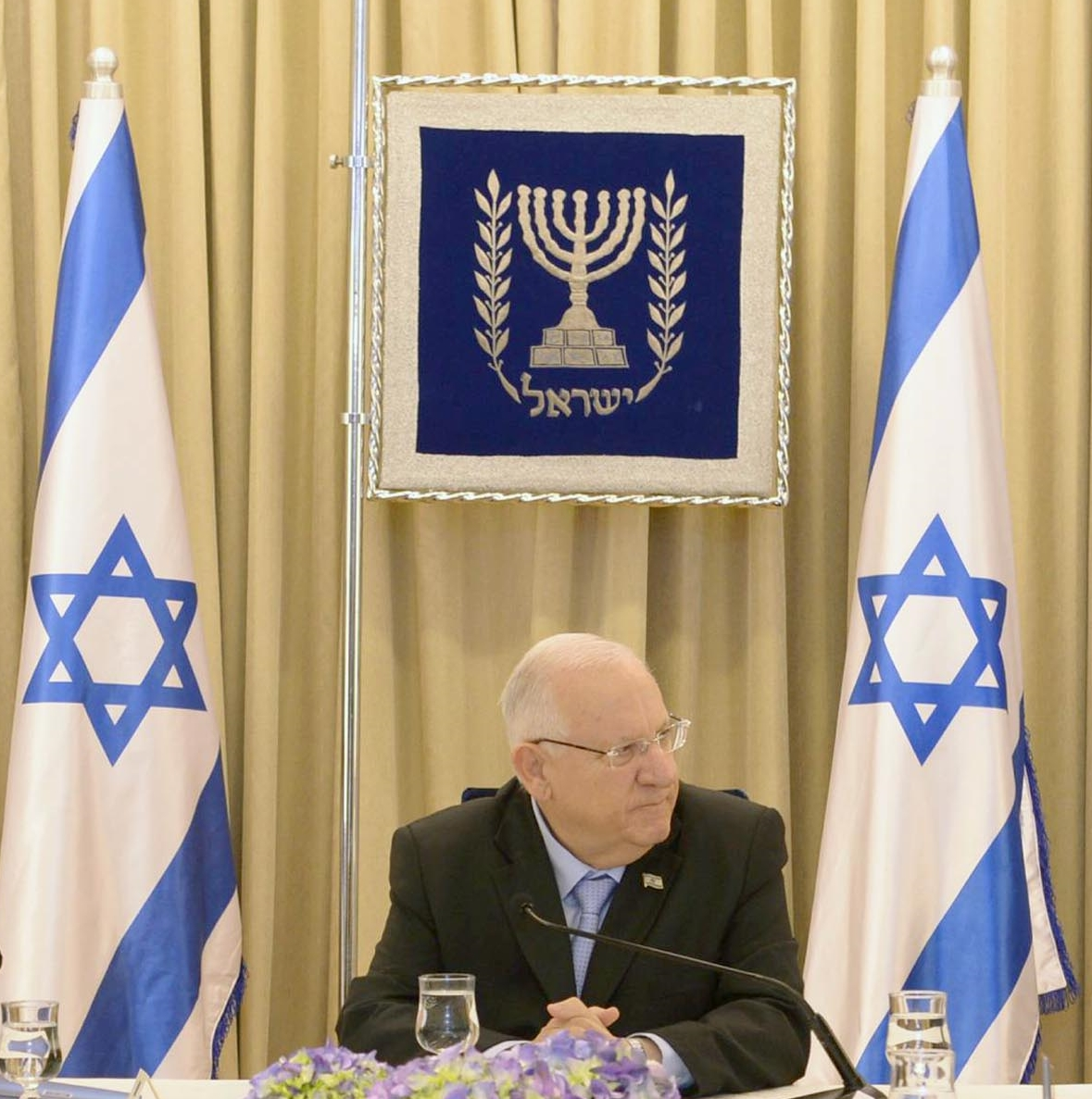 Israeli president Reuven Rivlin consult with party towards forming a government, 2015 Israeli legislative election, 2015